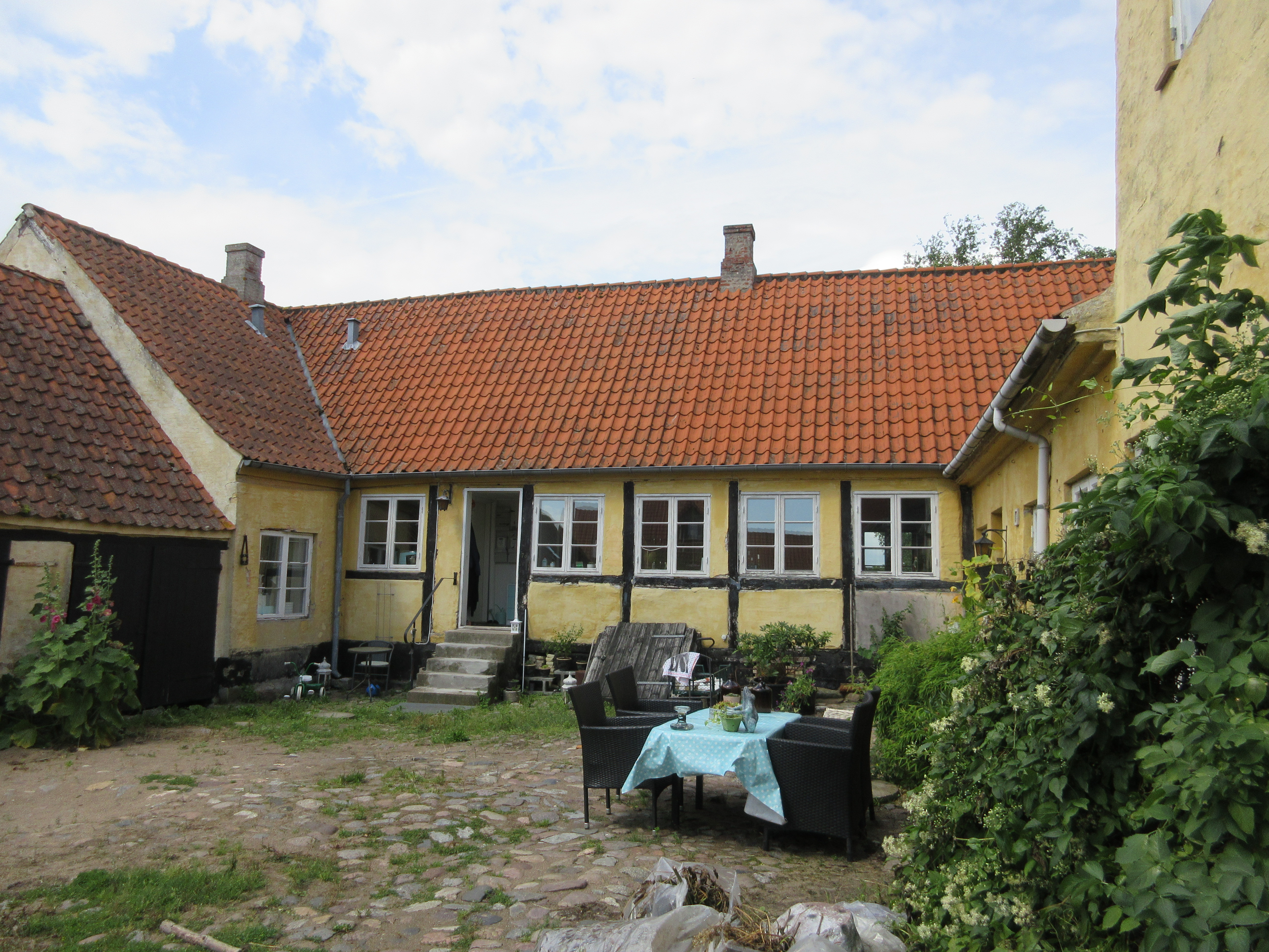 The side wing of Grundtvigs Hus in Præstø, Denmark